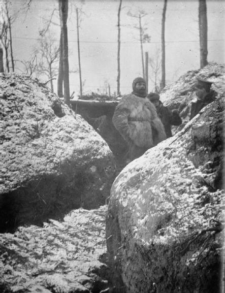 Men of the machine gun section of the 11th Hussars in the trenches at Zillebeke during the winter of 1914-1915. The man wearing the balaclava is Corporal Peel, who went on to become the unit's Regimental Sergeant Major (RSM) in 1930.